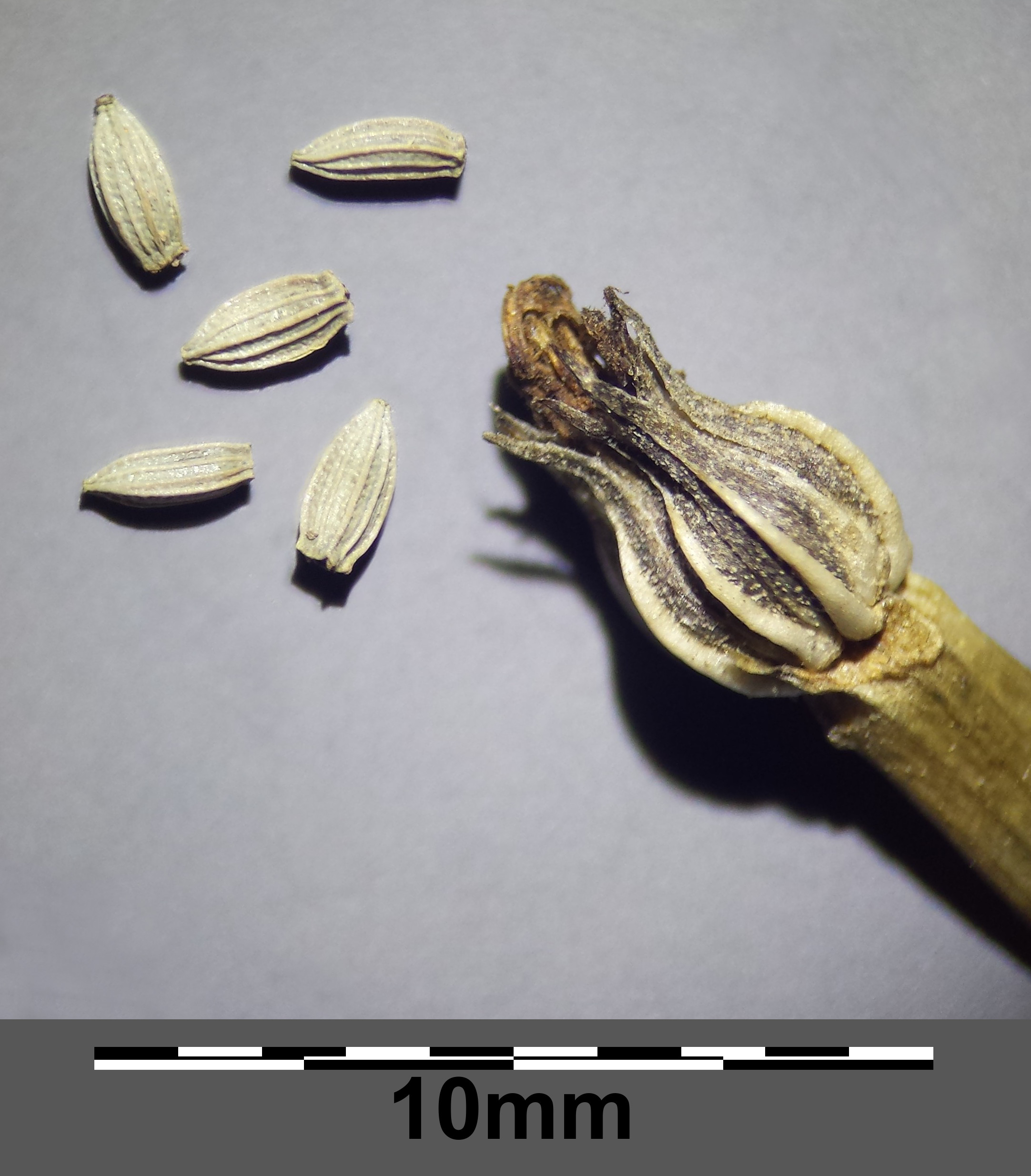 Flower basket with fruits Taxonym: Arnoseris minima ss Fischer et al. EfÖLS 2008 ISBN 978-3-85474-187-9 Location: Blockheide near Gmünd, district Gmünd, Lower Austria - ca. 500 m a.s.l. Habitat: field